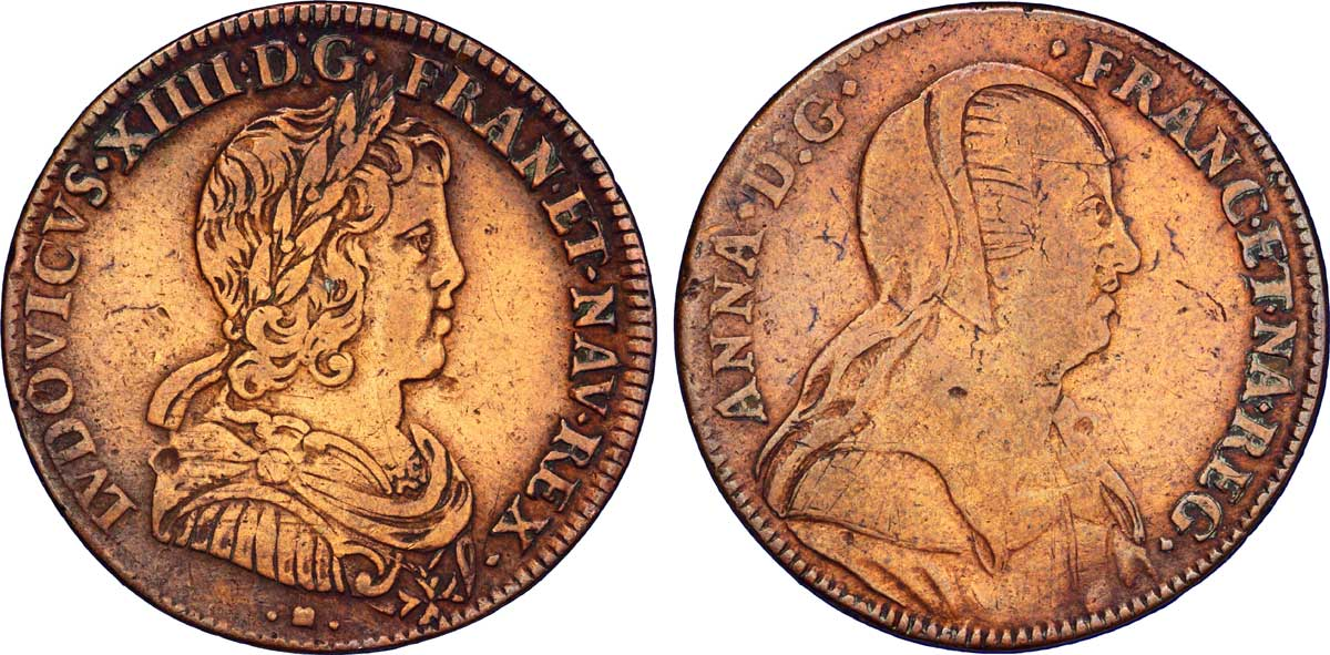 Jeton dont l’avers est à l’effigie d’Anne d’Autriche et le revers à celle de Louis XIV, années 1643-1646.